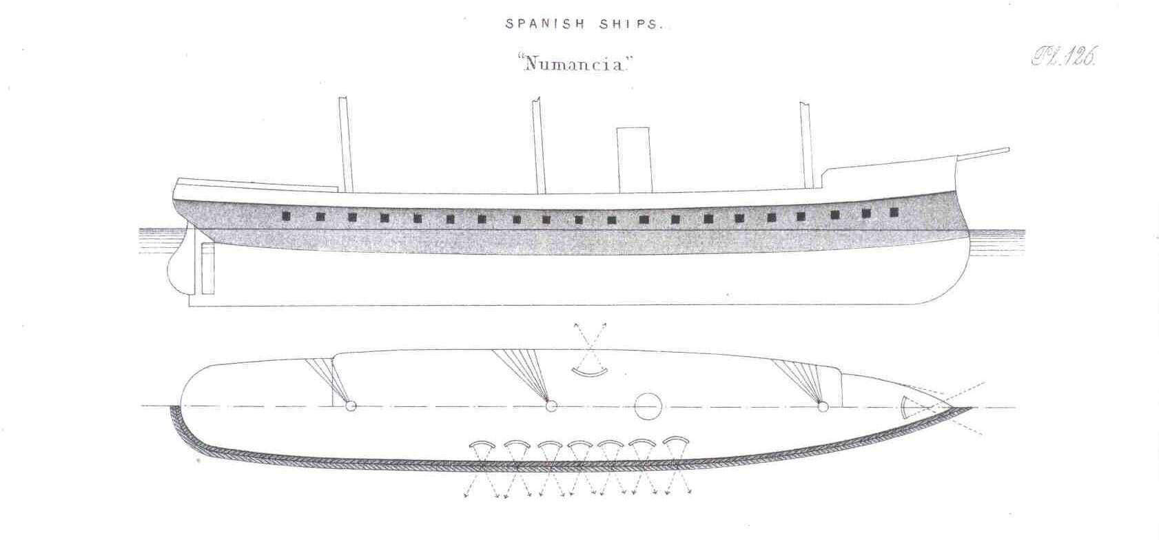 Spanish Ironclad Numancia, launched in 1863